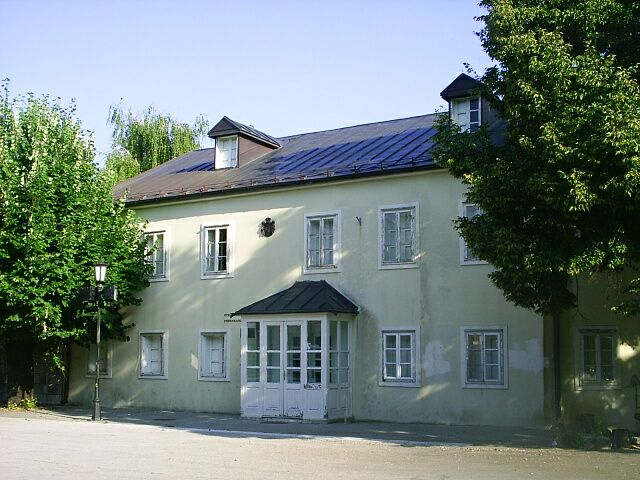 Former serbian embassy in Cetinje, Montenegro